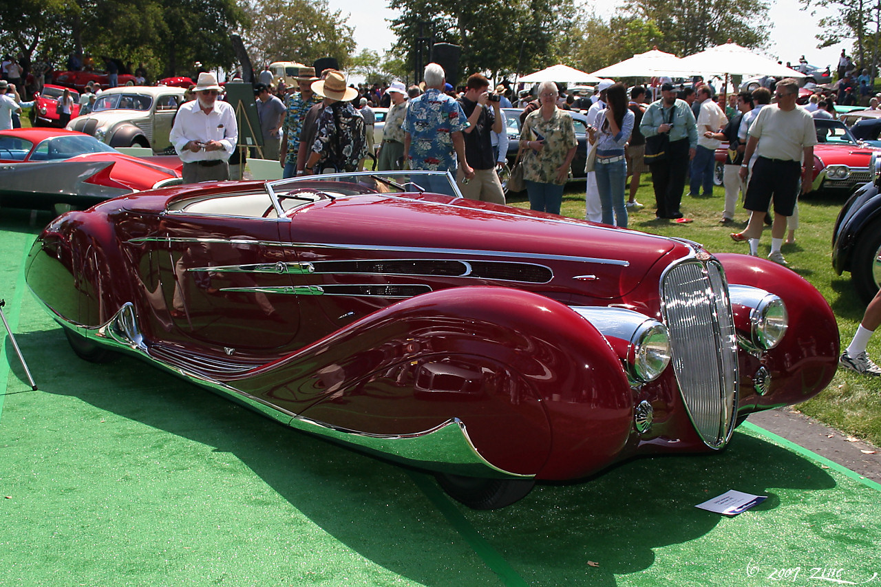 Pasadena Art Center Car Classic, July 7, 2007.